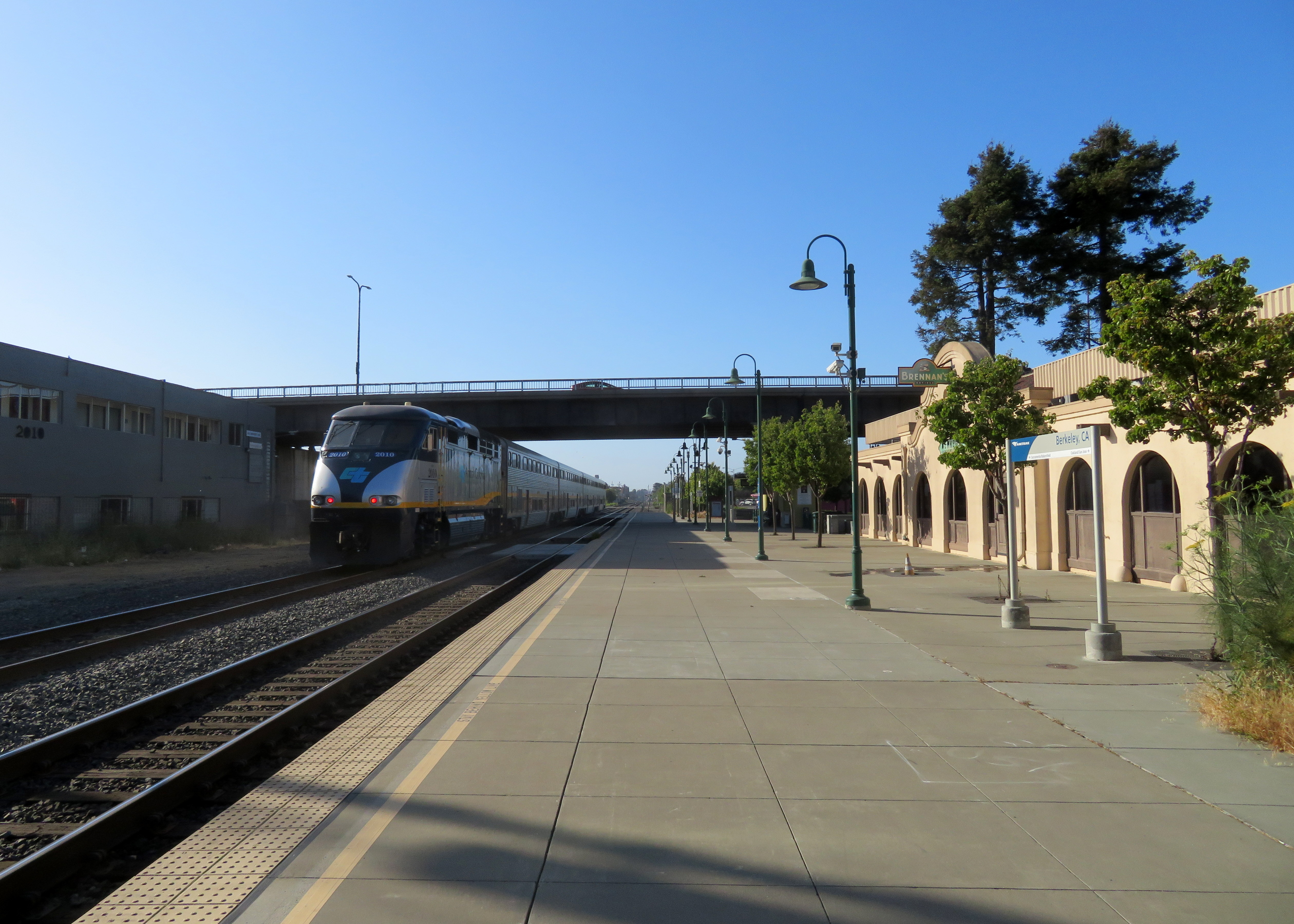 A Bakersfield-bound San Joaquin passes Berkeley station in June 2018